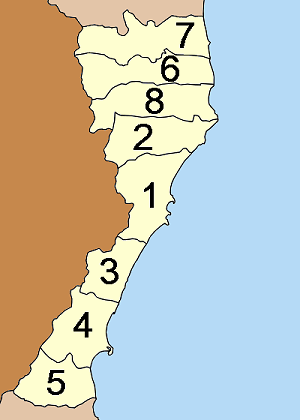 Map of Prachuap Khiri Khan province, Thailand, with the districts (Amphoe) numbered. Mueang Prachuap Khiri Khan (อำเภอเมืองประจวบคีรีขันธ์) Kui Buri (อำเภอกุยบุรี) Thap Sakae (อำเภอทับสะแก) Bang Saphan (อำเภอบางสะพาน) Bang Saphan Noi (อำเภอบางสะพานน้อย) Pran Buri (อำเภอปราณบุรี) Hua Hin (อำเภอหัวหิน) Sam Roi Yot (กิ่งอำเภอสามร้อยยอด)